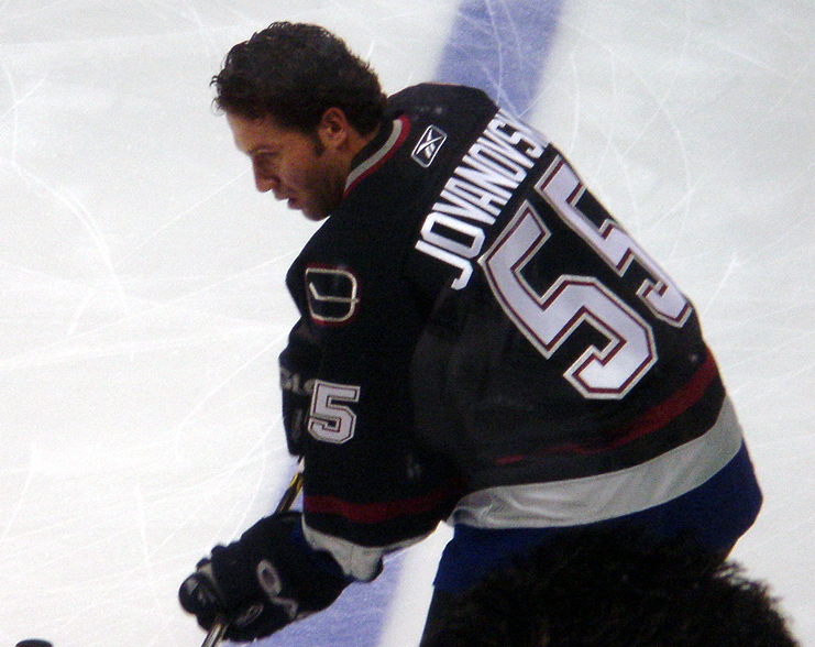 Former Vancouver Canucks defenceman Ed Jovanovski